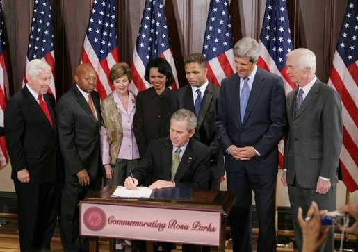 White House signing of Bill for Rosa Parks statue at Statuary Hall. White house website description as follows: President George W. Bush is seen Thursday, Dec. 1. 2005 in the Eisenhower Executuive Office Building in Washington, as he signs H.R. 4145, to Direct the Joint Committee on the Library to Obtain a Statue of Rosa Parks, which will be placed in the US Capitol's National Statuary Hall. The President is joined by, from left to right, U.S. Sen. Richard G. Lugar, R-Ind., U.S. Secretary of Housing and Urban Development Alphonso Jackson, Mrs. Laura Bush, U.S. Secretary of State Condoleezza Rice, U.S. Rep. Jesse Jackson Jr., D-Ill., U.S. Sen. John Kerry, D-Mass., and U.S. Sen. Thad Cochran, R-Miss.